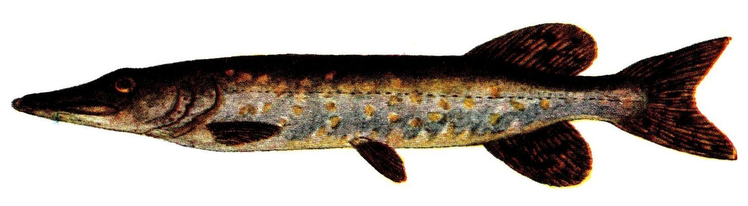 Esox lucius